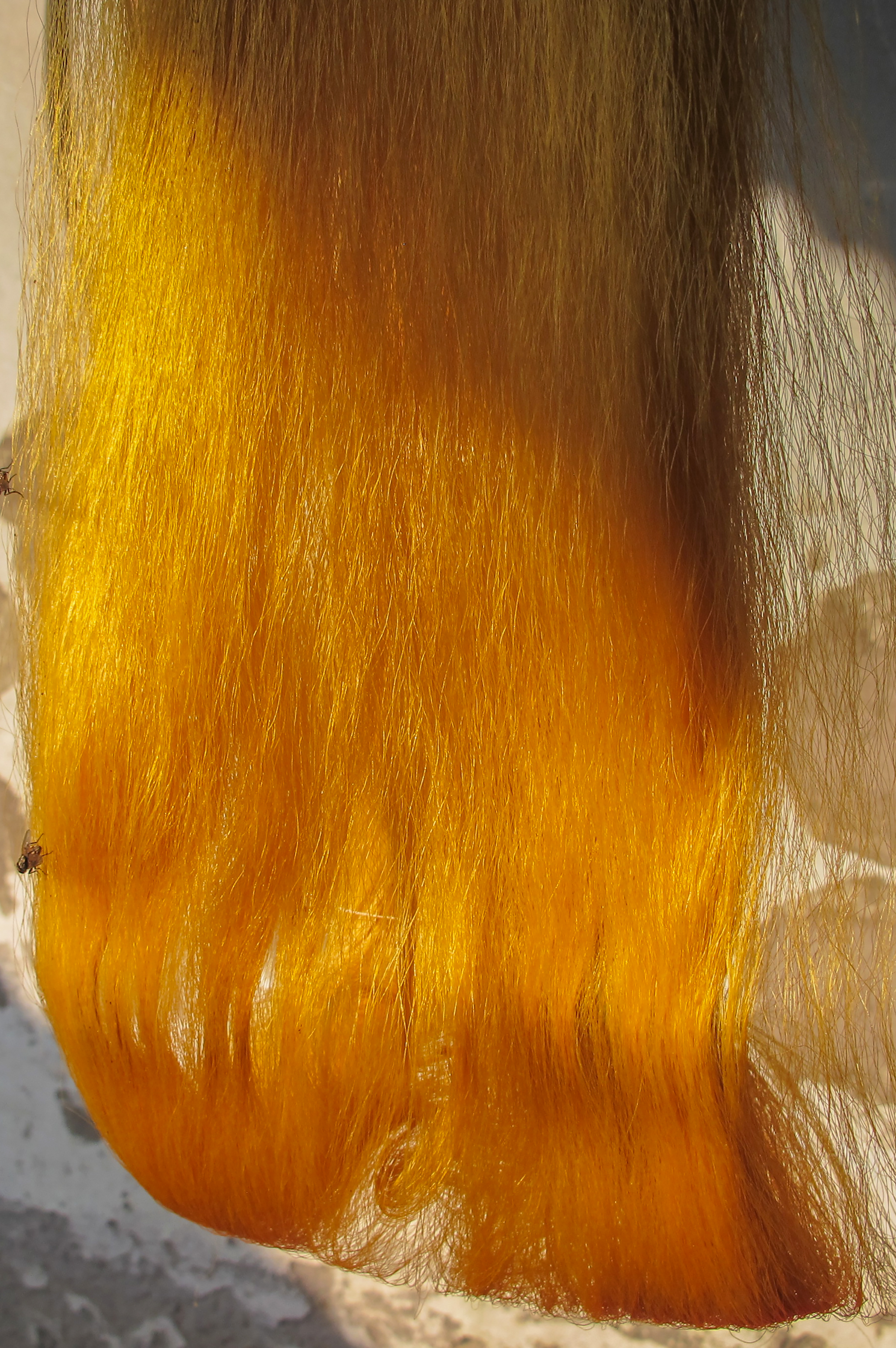 Rajshahi silk fibers, Sopura Silk Mills Limited, Rajshahi.